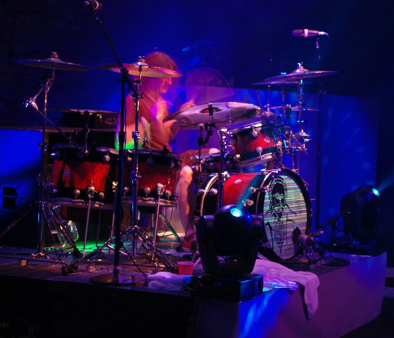 Alice In Chains